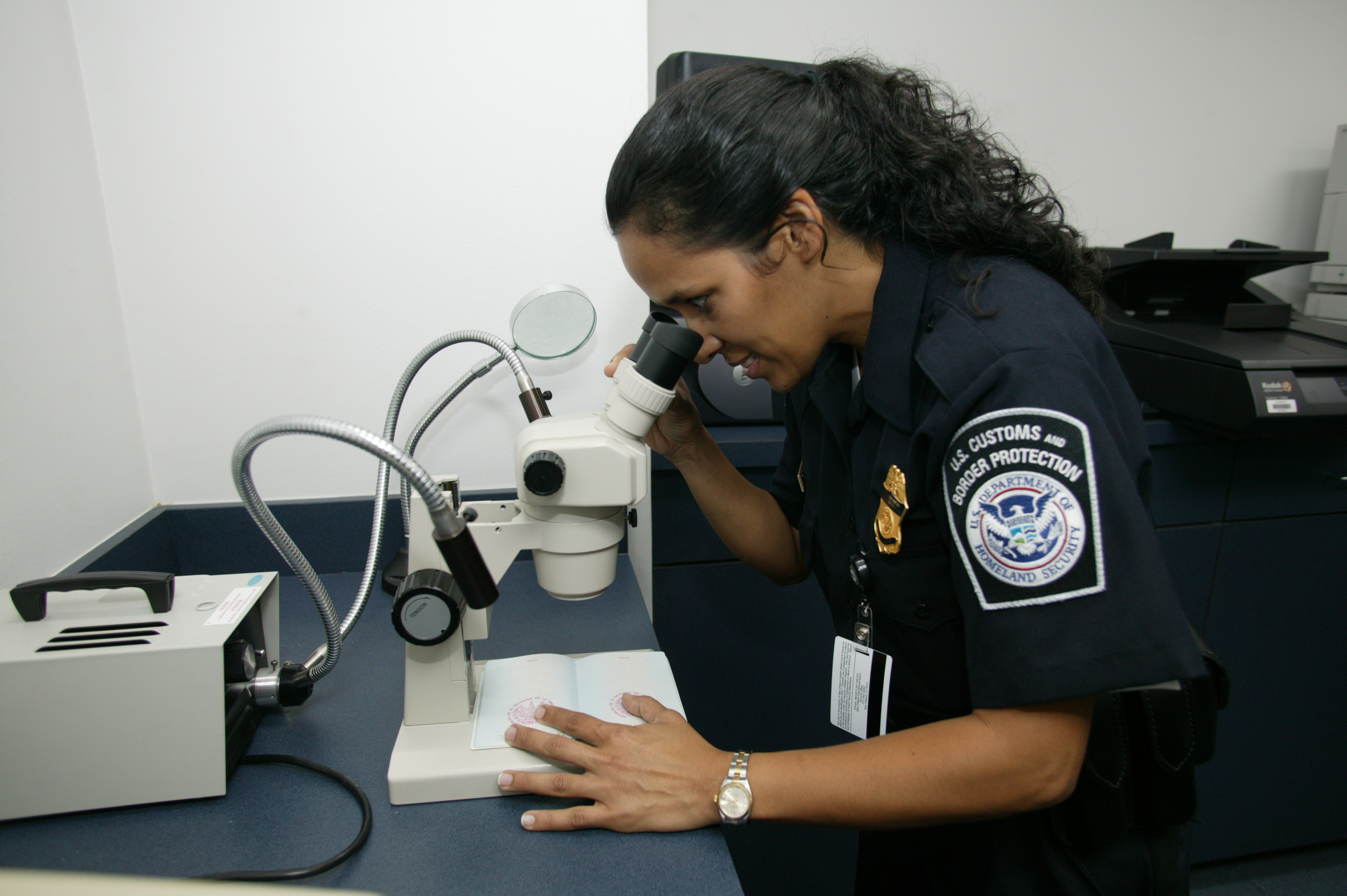 CBP Office of Field Operations agent checking the authenticity of a travel document at an international airport using a stereomicroscope. Original description by CBP: "Checking the authenticity of a travel document is a critical part of a CBP Officer’s duties."